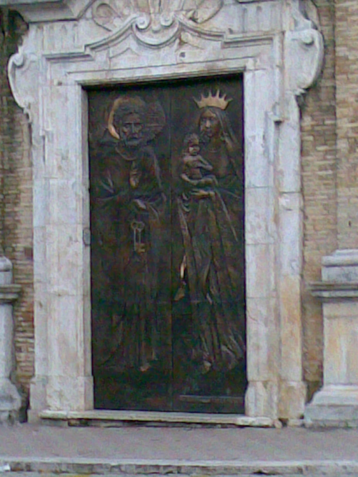 Church door with San Peter and Mary with Holy Child in Esperia, province of Frosinone, Italy